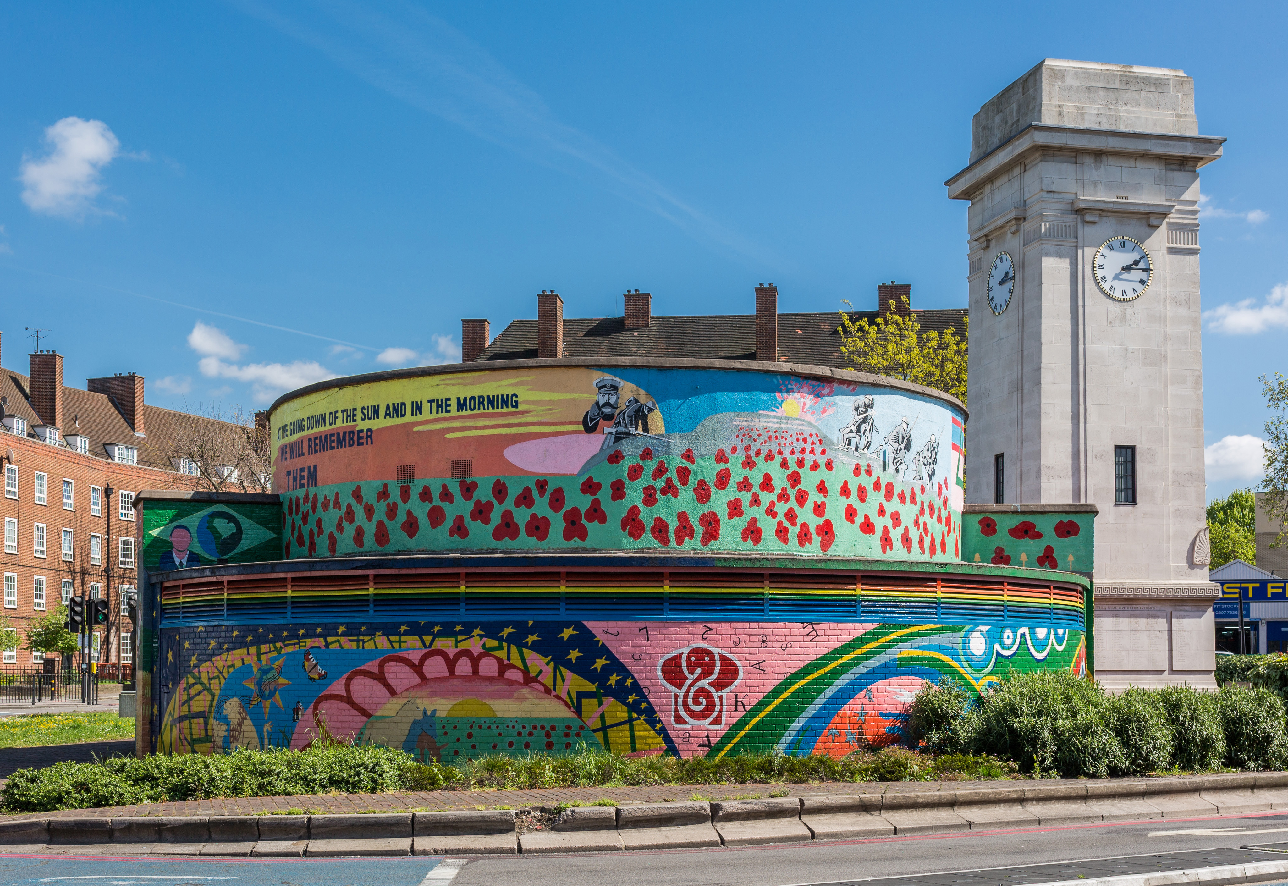 The Stockwell deep level shelter entrance in London, England, viewed from S Lambert Rd.